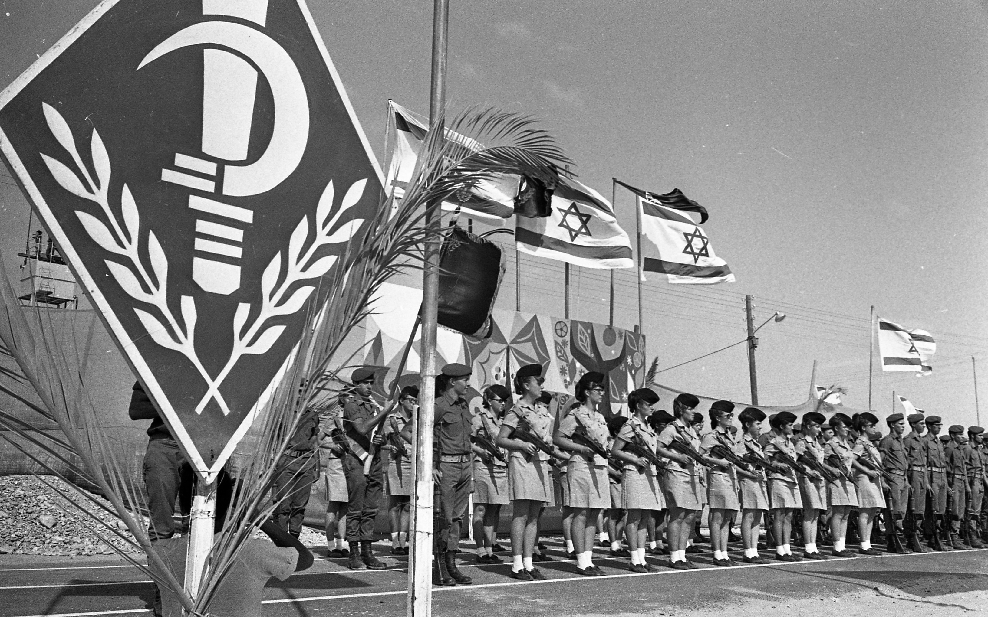 The new Nahal military settlement, Nahal Dikla, was officially founded in north Sinai near the town El-Arish.